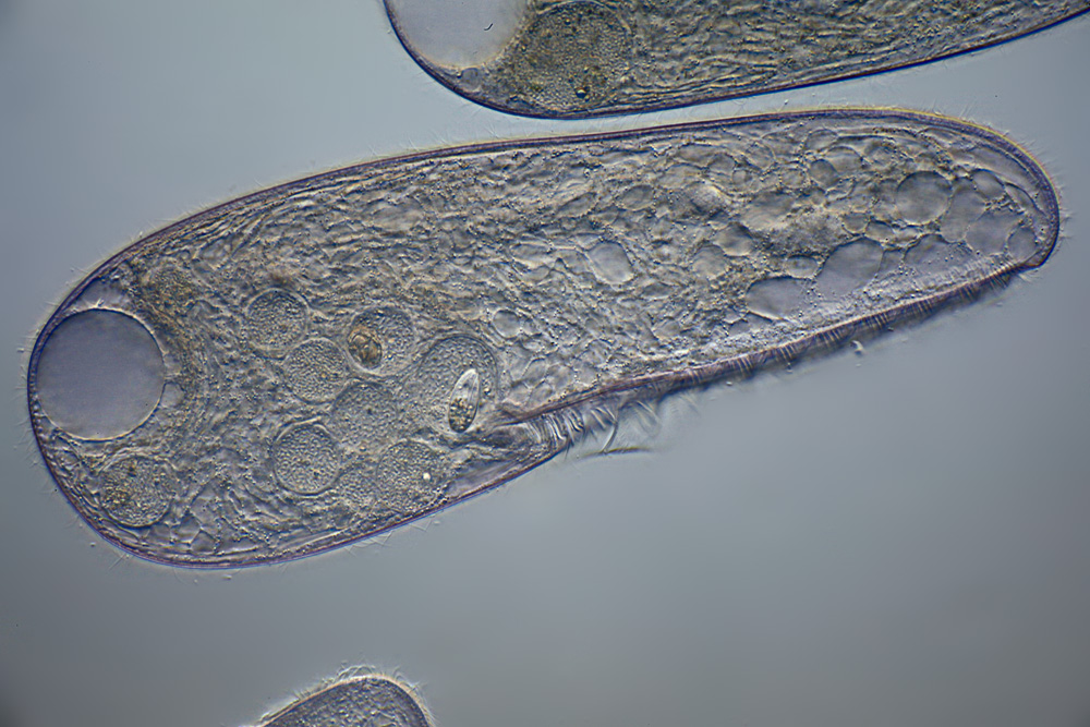 Blepharisma japonicum, Heterotrichea, Ciliophora